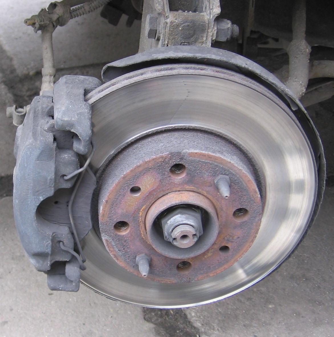 Disc brake in a car - after dismantling the wheel